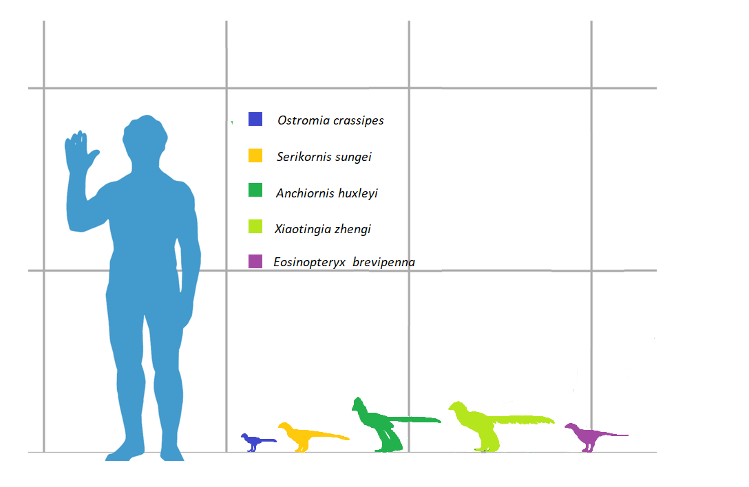 Anchiornithidae size comparison